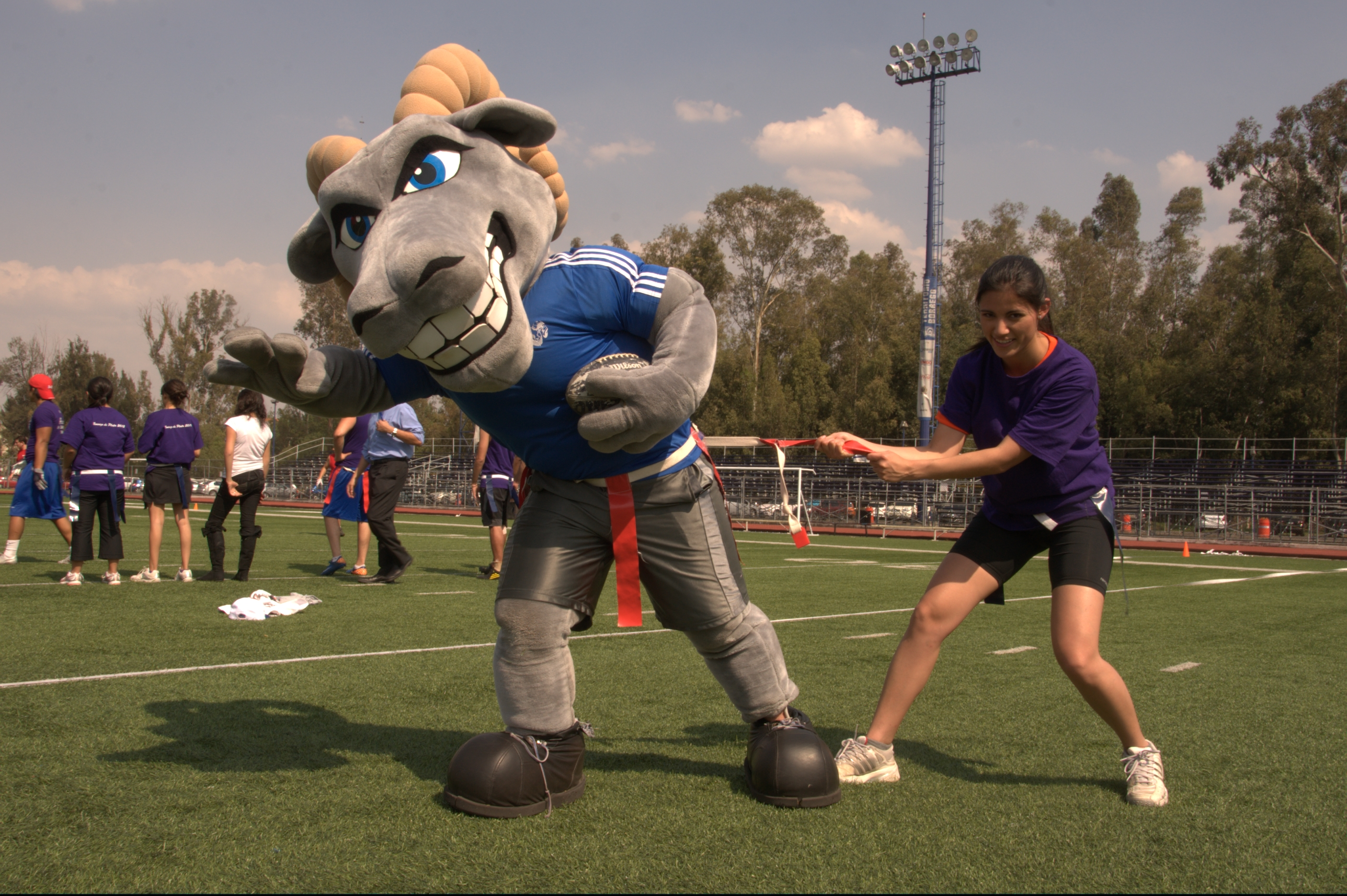 Pet and participant in flag soccer event as part of Borregos de Plata for bussiness students of ITESM-Campus Ciudad de Mexico